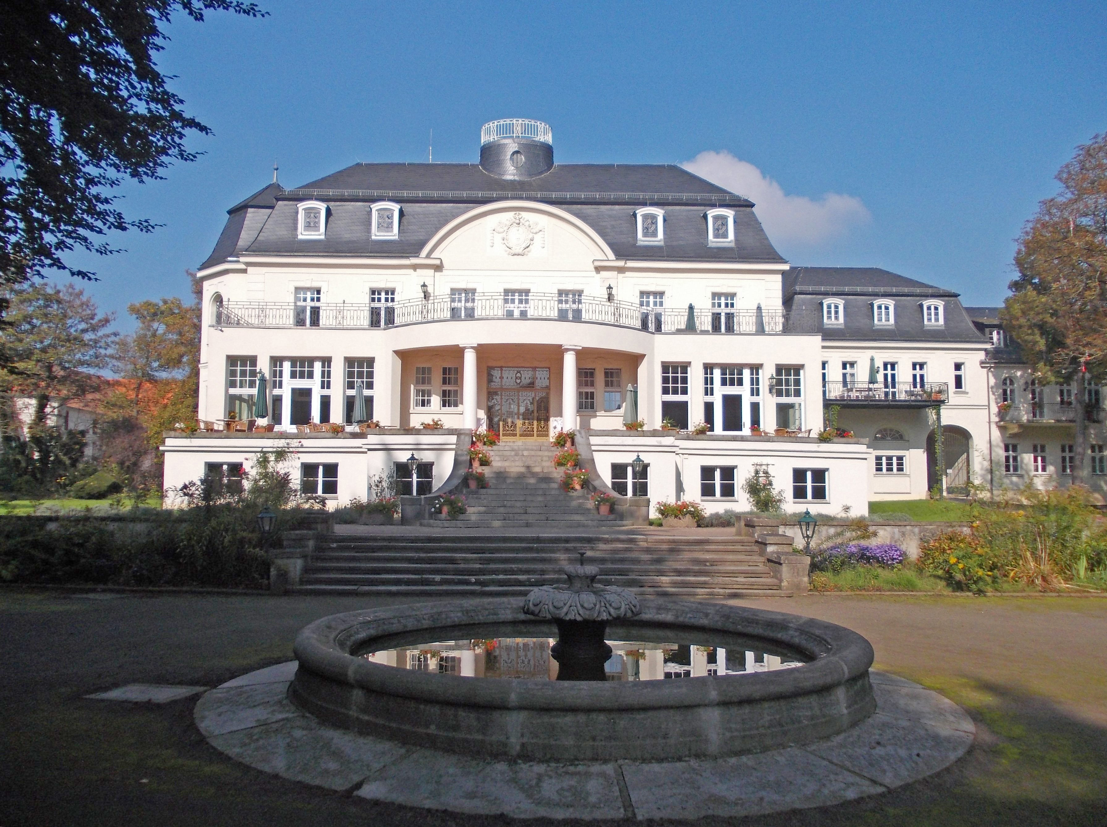 Teutschenthal Castle (district: Saalekreis, Saxony-Anhalt)